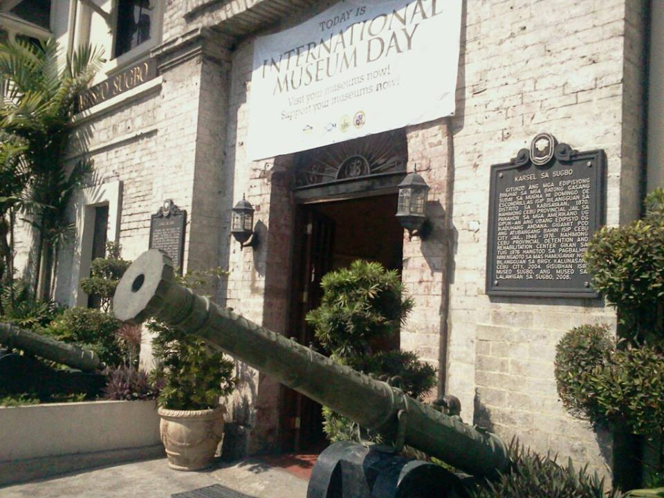 Facade of the Museo Sugbo during 2013 International Museum Day. Tagalog: Ang harapan ng Museo Sugbo noong pagdiriwang ng "Pandaigdigang Araw ng Museo" sa taong 2013. Cebuano: Ang ganghaan sa Museo Sugbo niadtong pagsaulog sa "International Museum Day sa tuig 2013.